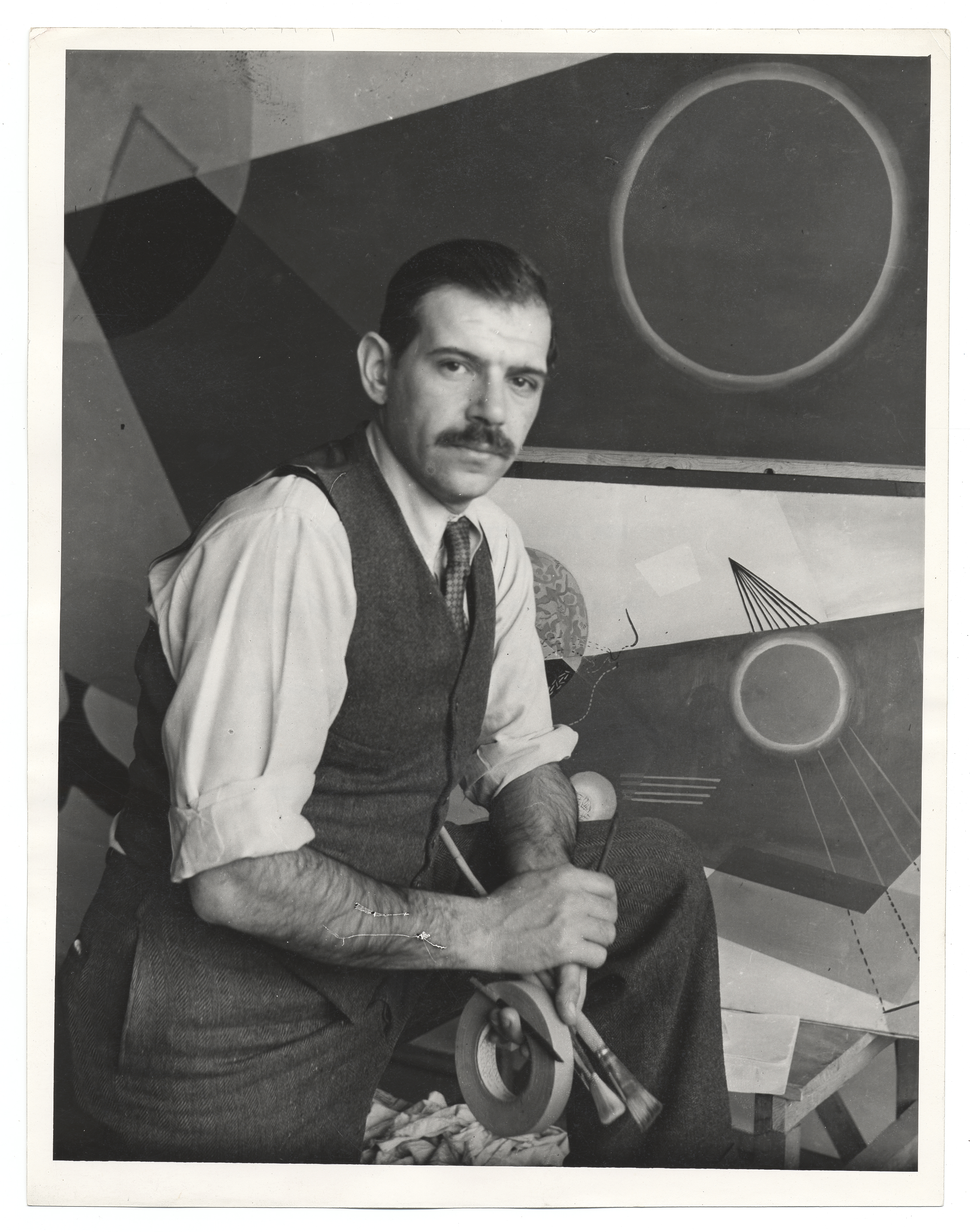 Schanker holding tape and brushes, standing in front of a mural. Identification on verso (handwritten and stamped): Federal Art Project W.P.A.; Photographic Division; 110 King Street; New York City Neg. No.: 3563-F54; Photographer: Robbins; Date: May 1939; Title: L. Shanker at work.